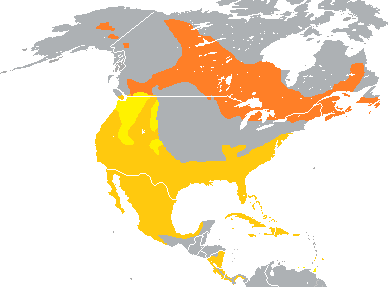 Aythya collaris range map. Source